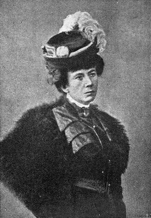 Italian author Neera (1846-1918), photograph from the late 19th-century